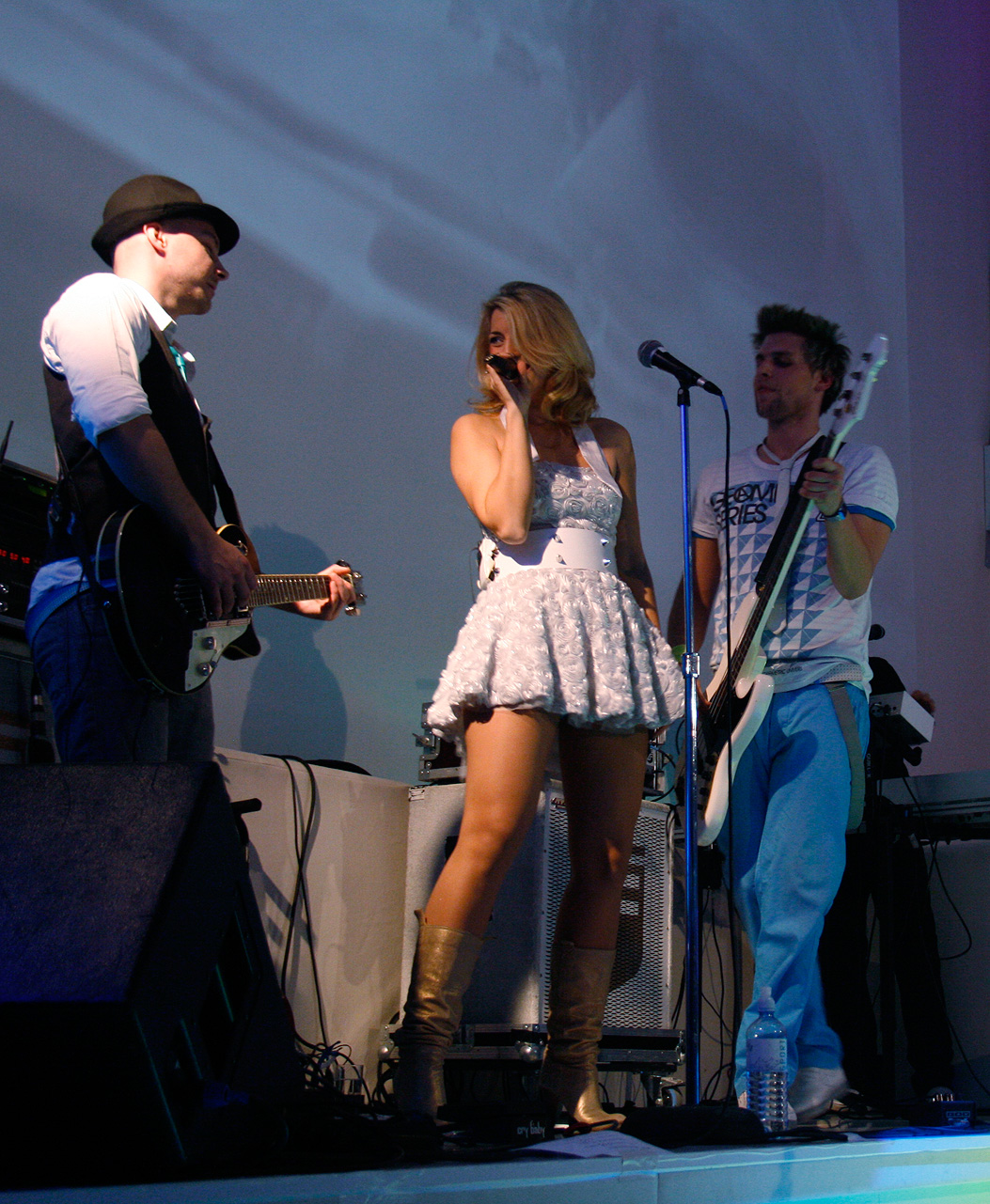 Austrian band Zweitfrau, album release of Date Me at the phoenix supperclub in Vienna.